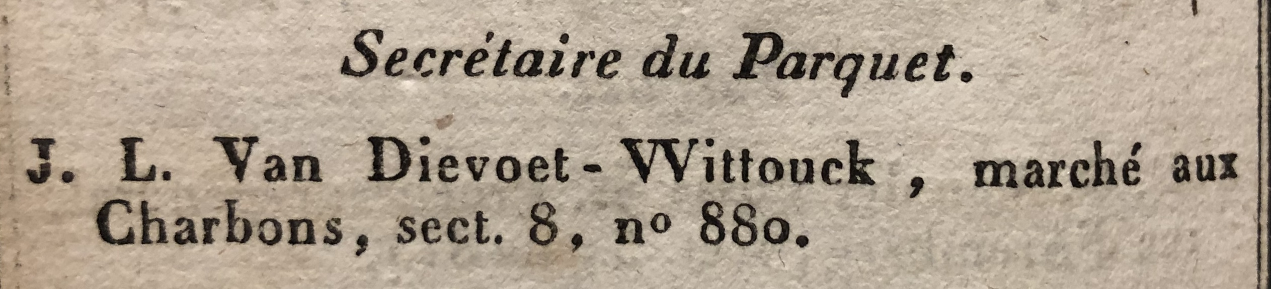 Jean-Louis VAN DIEVOET-WITTOUCK, Secretary of the Supreme Court of Brussels, Almanach Royal 1826